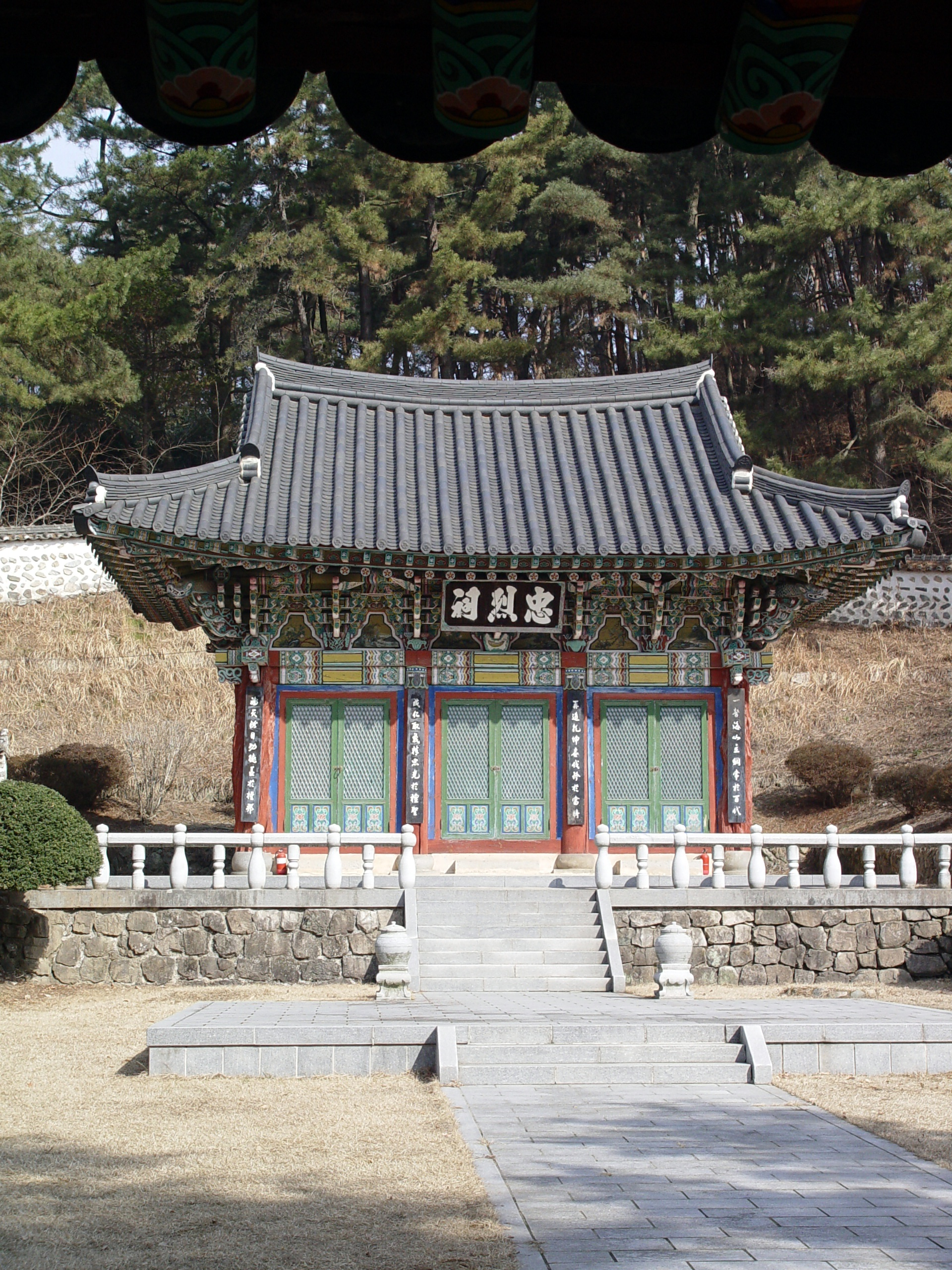 Chungryeolsa, a temple in Jeongeup, South Korea